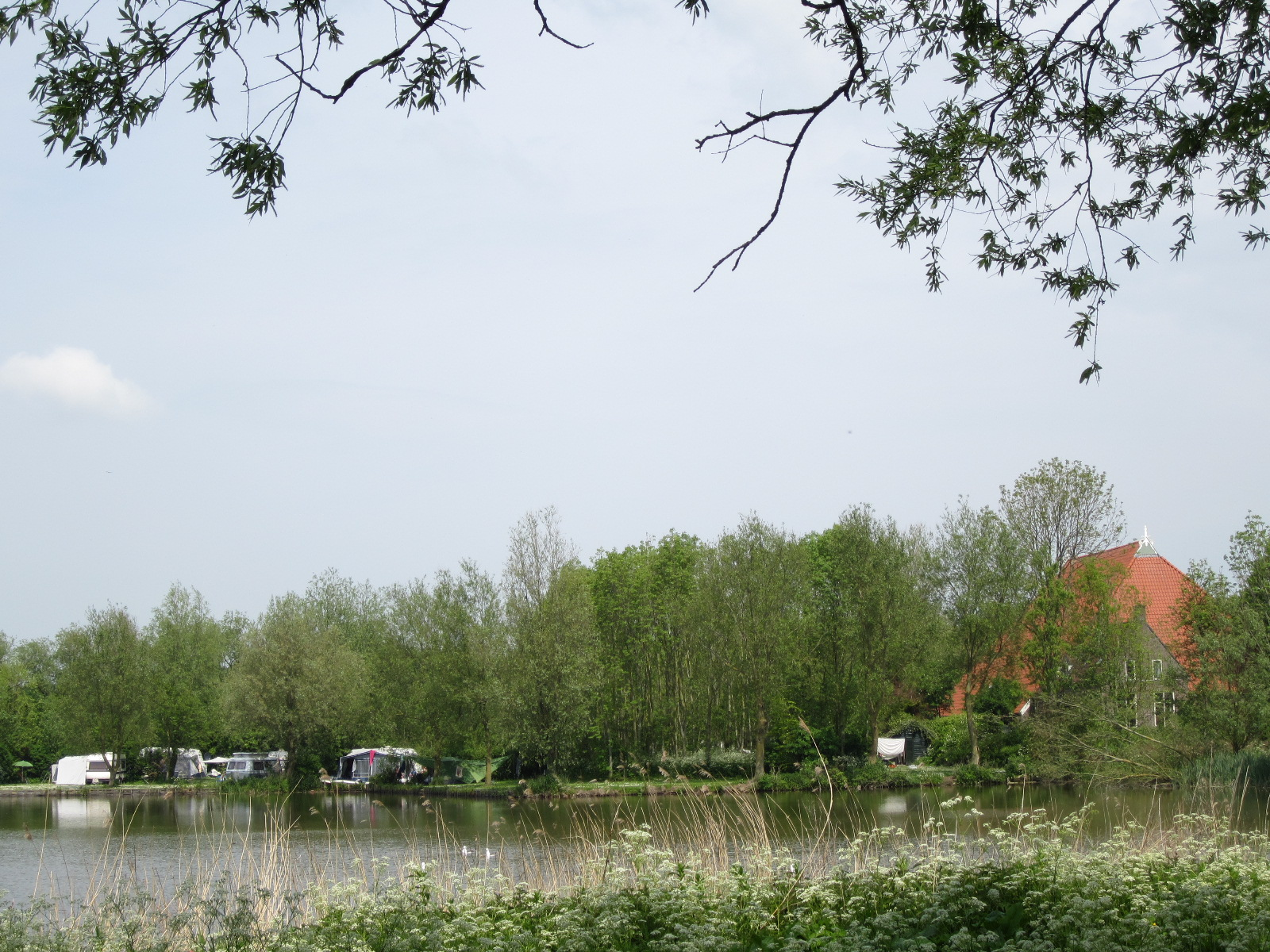 Former farm Taniaburg with camping. North of city Leeuwarden, county Friesland, The Netherlands.